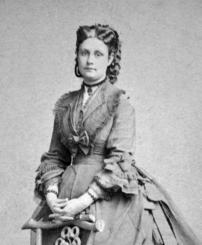 Princess Maria Immacolata of Bourbon-Two Sicilies, Archduchess of Austria, Princess of Tuscany